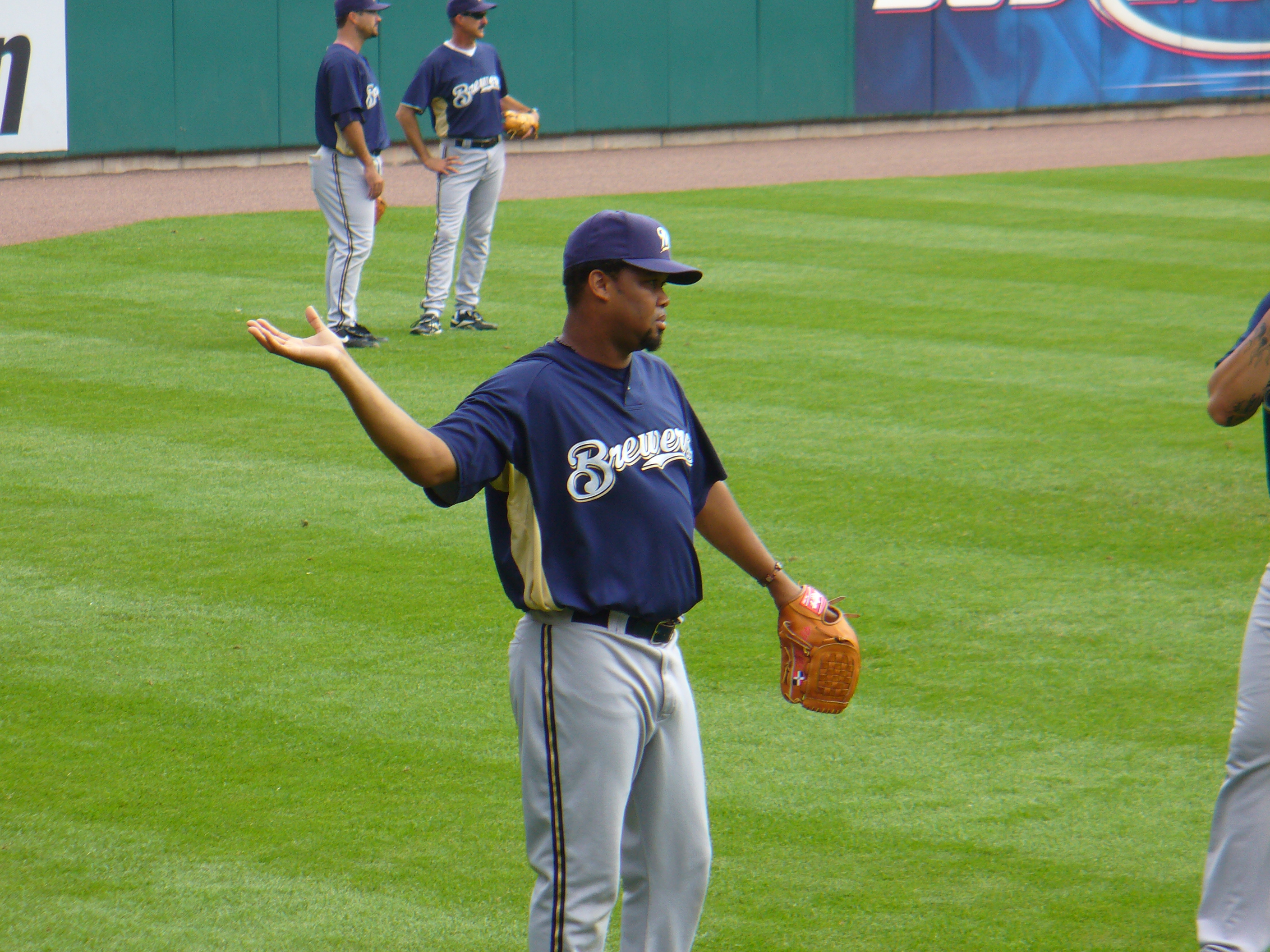 Image of Francisco Cordero before warming up in St. Louis move approved by User:Common Good